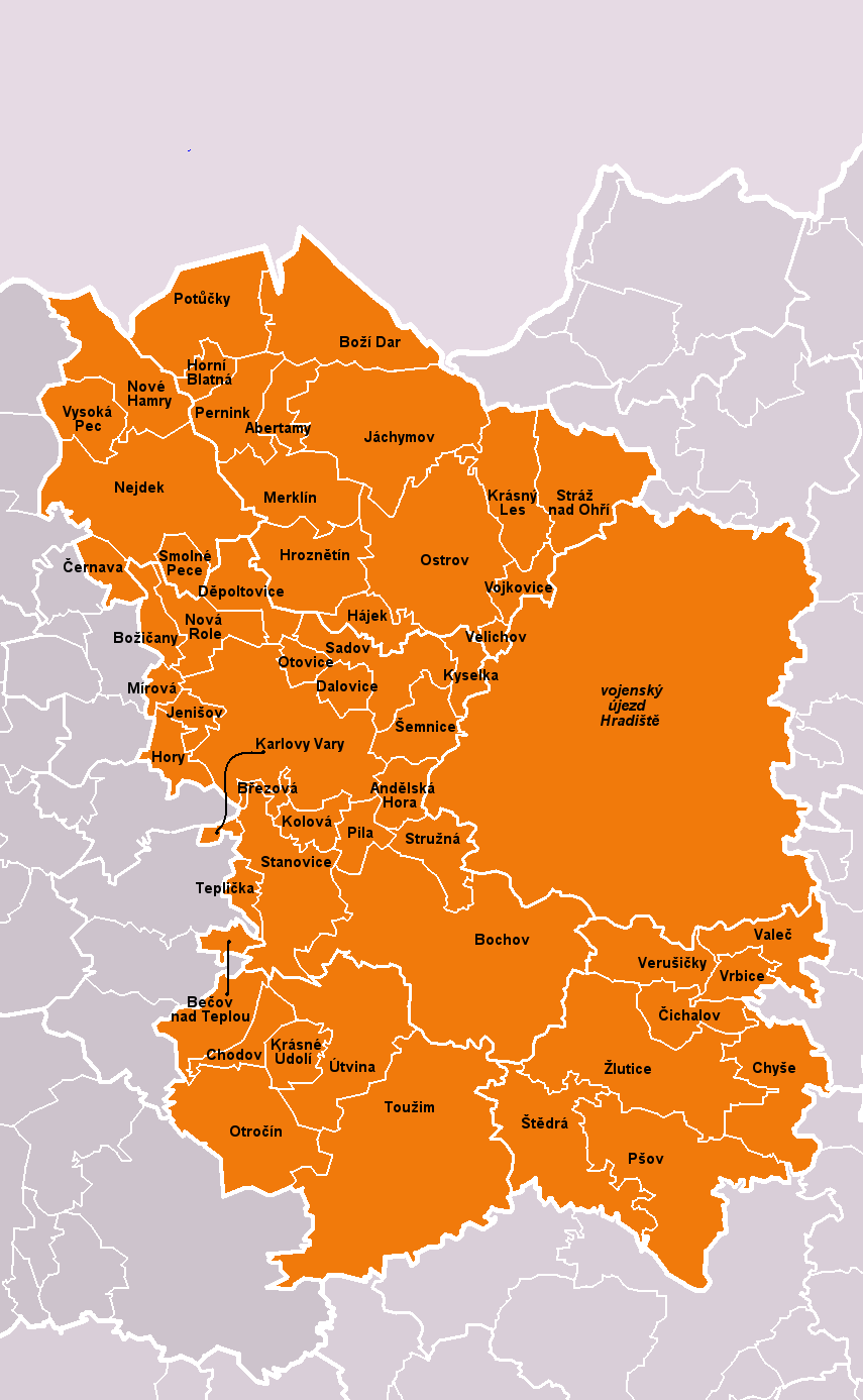 Municipalities of Karlovy Vary District as of January 1, 2010 (53 municipalities and 1 military training area). White lines of variable thickness show boundaries of municipalities, administrative areas, districts, regions and nations.